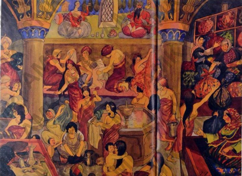 Women bath. Azim Azimzade. 1935